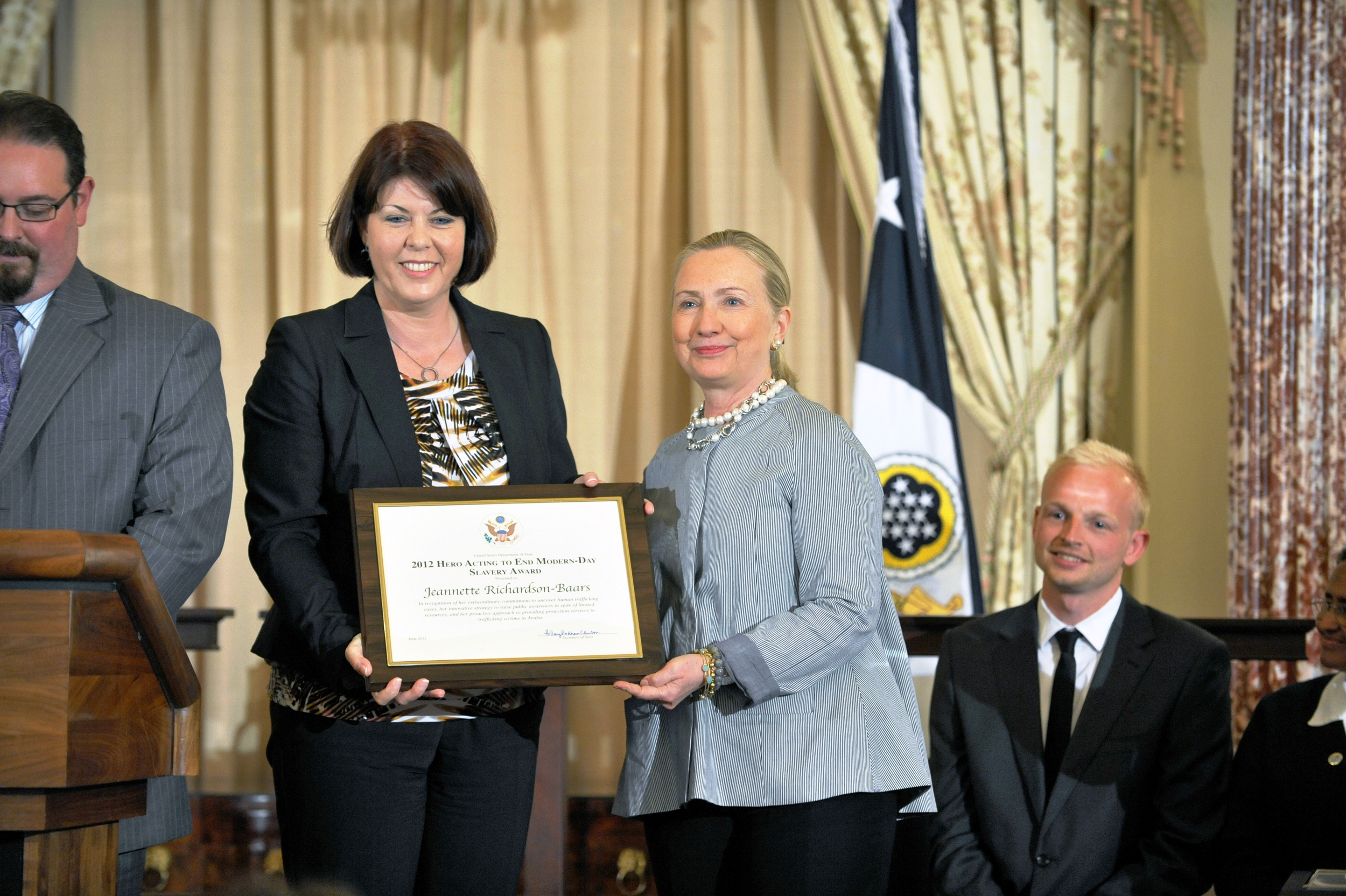 Lifted from flickr: "U.S. Secretary of State Hillary Rodham Clinton honors Jeanette Richardson-Baars of Aruba, a 2012 Trafficking in Persons (TIP) Report Hero, at the U.S. Department of State in Washington, D.C., on June 19, 2012. [State Department photo/ Public Domain]"